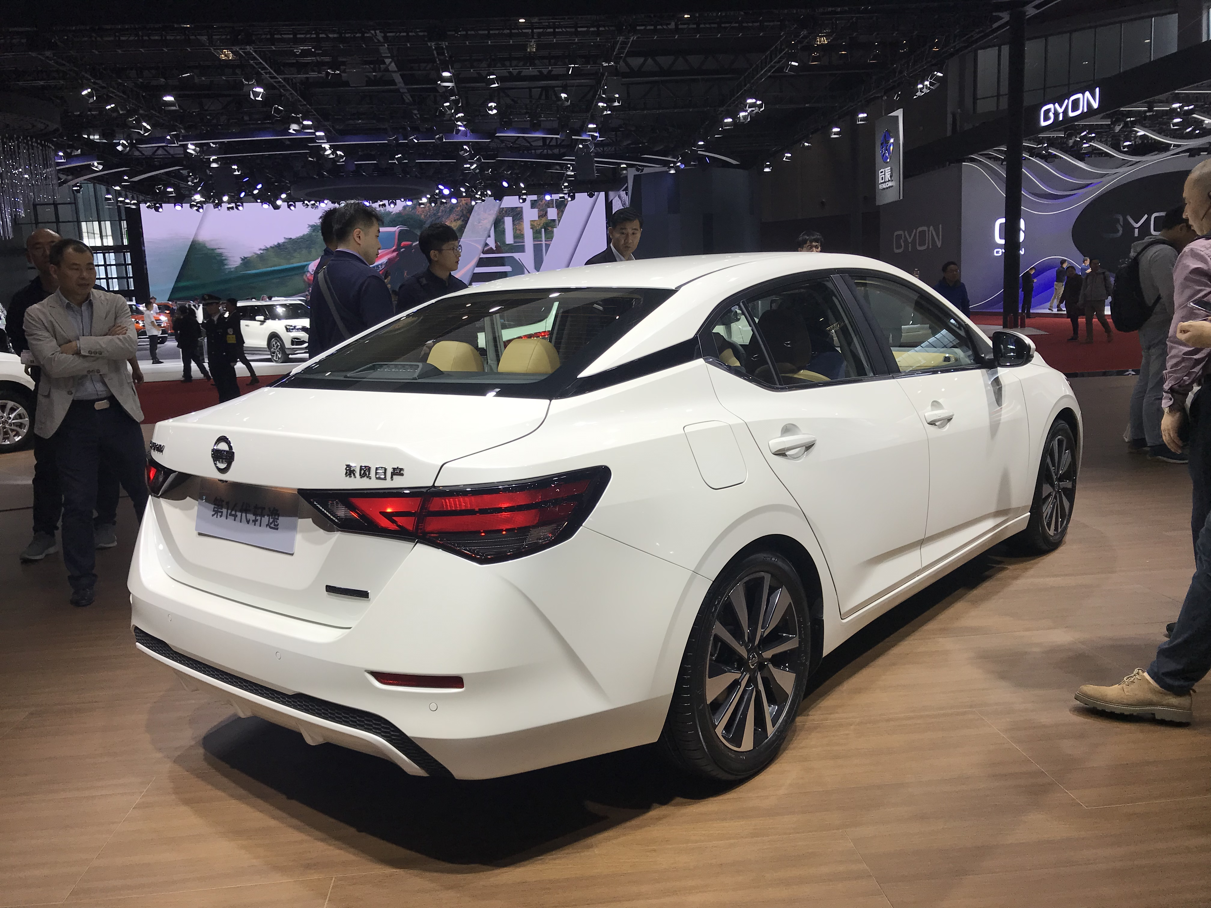 Nissan Sylphy B18 rear